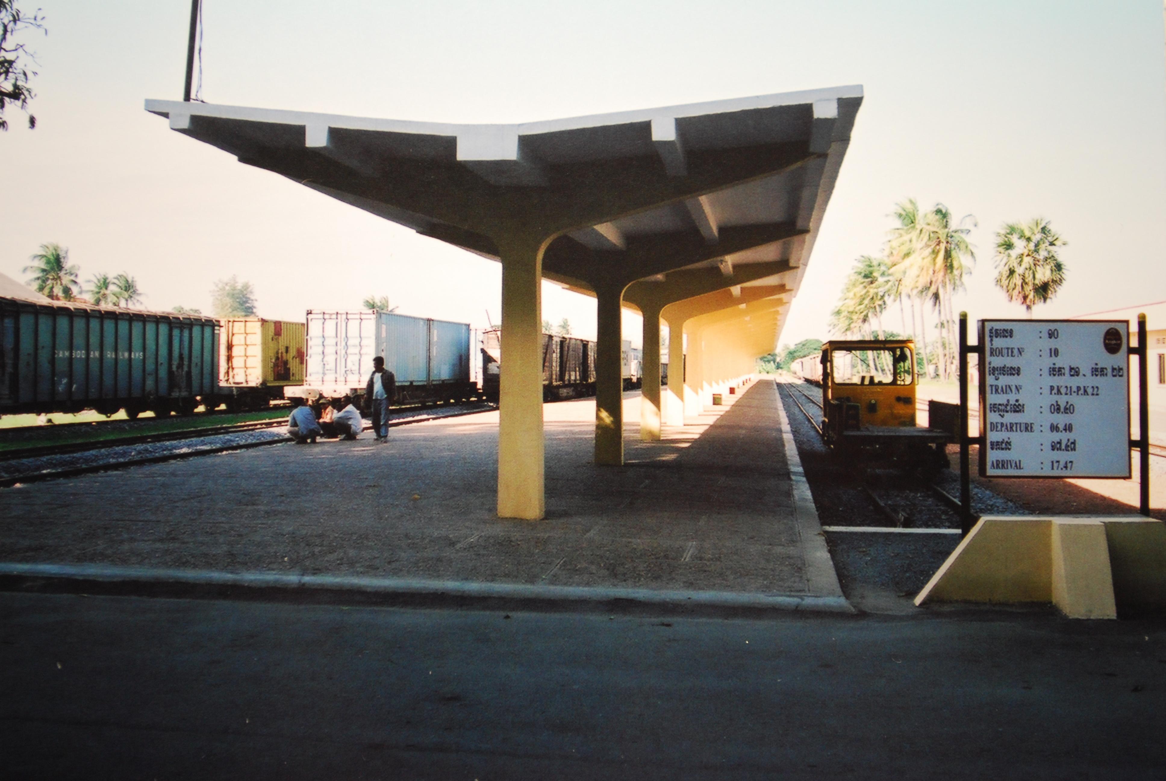 Phnom Penh sta. plathorm,phnom penh city,cambodia